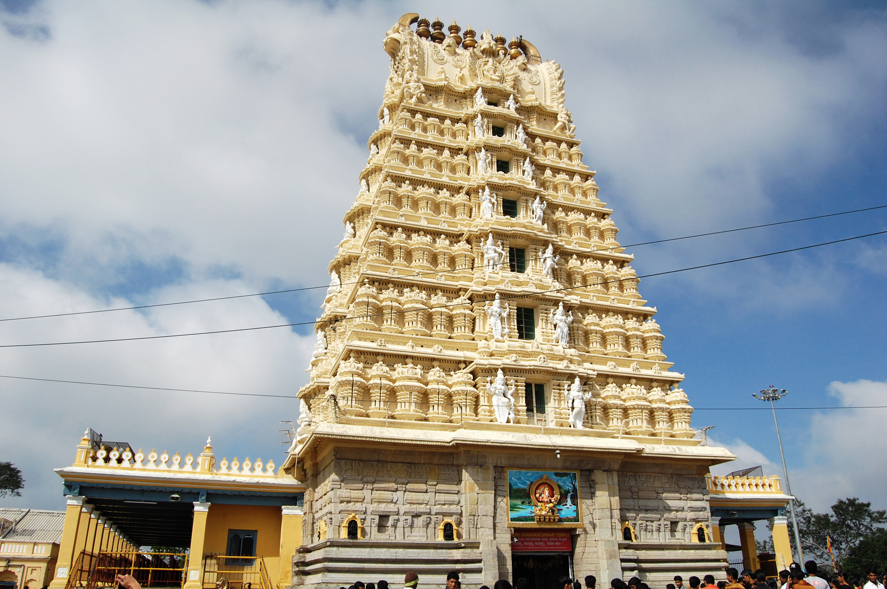 Chamundeshwari Temple located at Chamundi hills in Mysore, Karnataka India. The temple is at a height of 3000 ft and a 40 m gopura (tower) at the entrance. Inside the temple is a solid gold idol of Goddess Chamundeshwari, the guardian deity of the Mysore Maharajas.